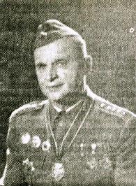 Franc Avbelj-Lojko (1914-1993), Slovene partisan and communist official